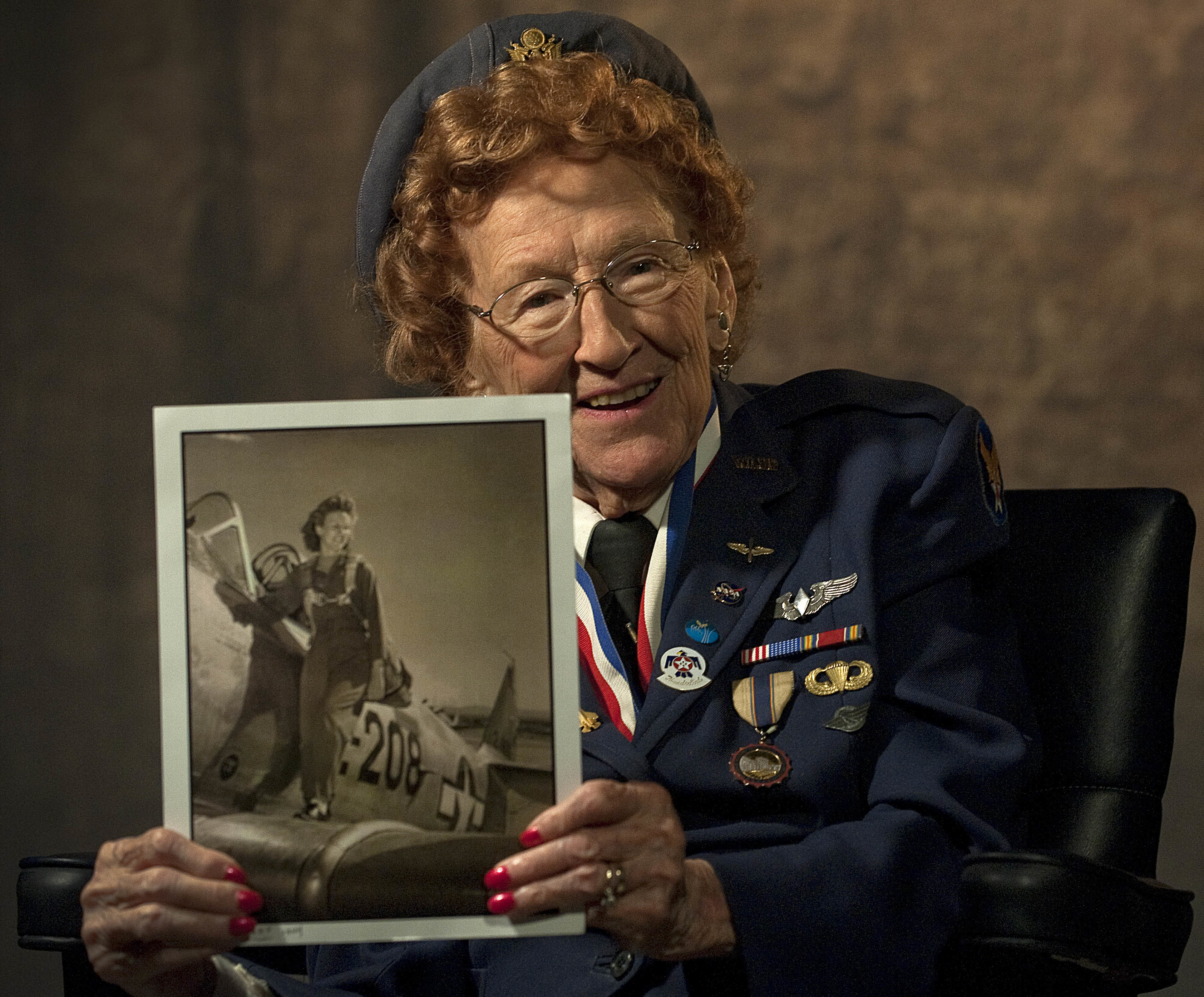 Betty Wall Strohfus, a WWII Women Airforce Service Pilot, holds a picture of herself when she was a WASP pilot, Sept. 27,2012, at Nellis Air Force Base, Nev. Strohfus was stationed at Las Vegas Army Air Field from 1943-44, and was one of 1,074 women who became certified WASP pilots during WWII. Las Vegas Army Air Field later was re-designated as Nellis AFB. The female pilots of the WASP freed up male pilots for combat services and duties during the WWII era.